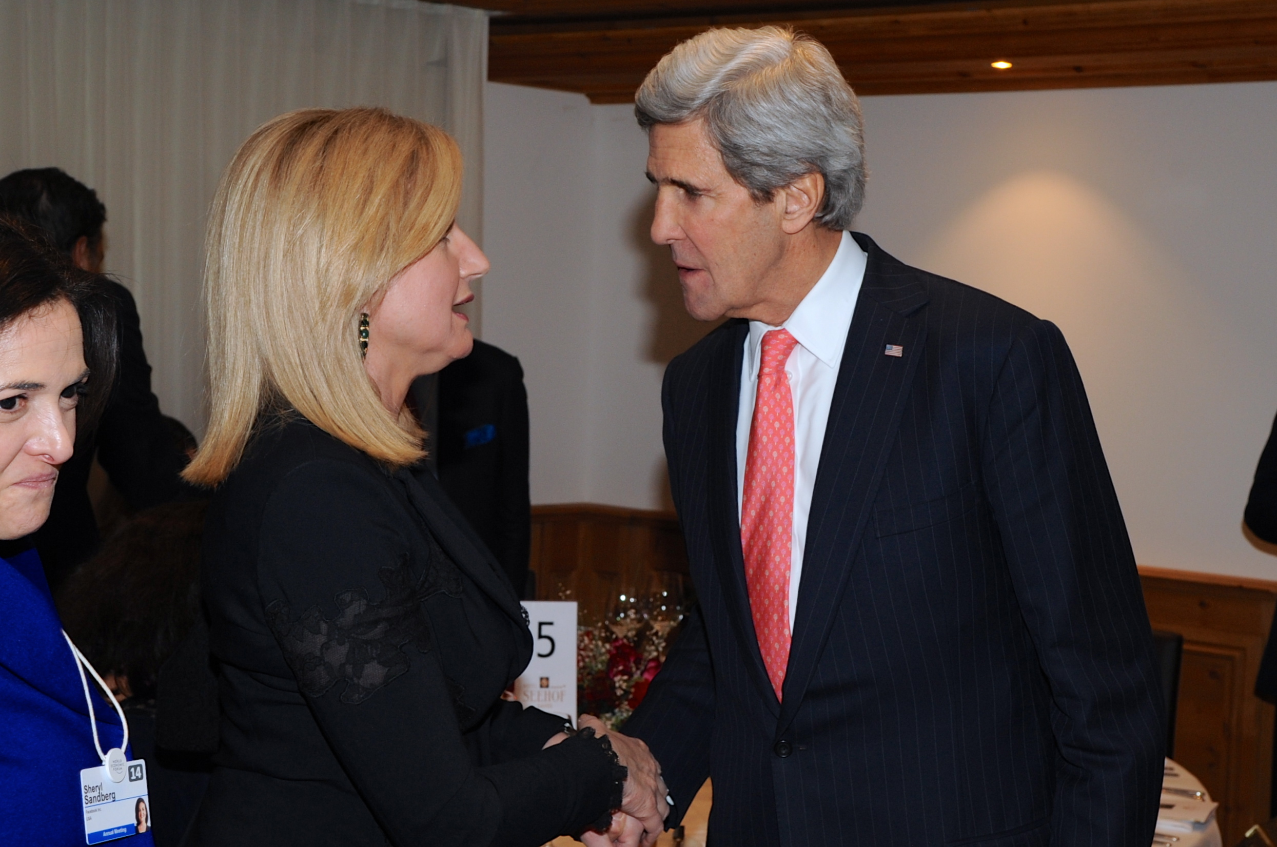 U.S. Secretary of State John Kerry speaks with Huffington Post founder Arianna Huffington during a dinner hosted by Coca-Cola CEO Muhtar Kent on the sidelines of the World Economic Forum in Davos, Switzerland, on January 23, 2014. [State Department photo/ Public Domain]